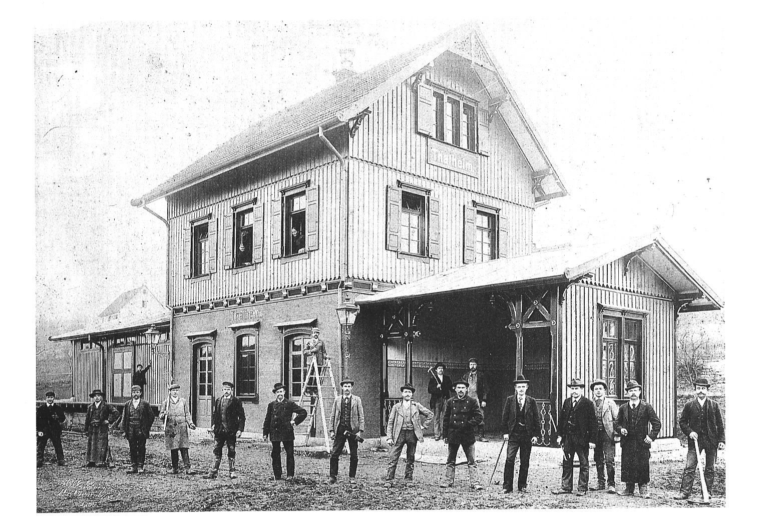 Train station Talheim while built